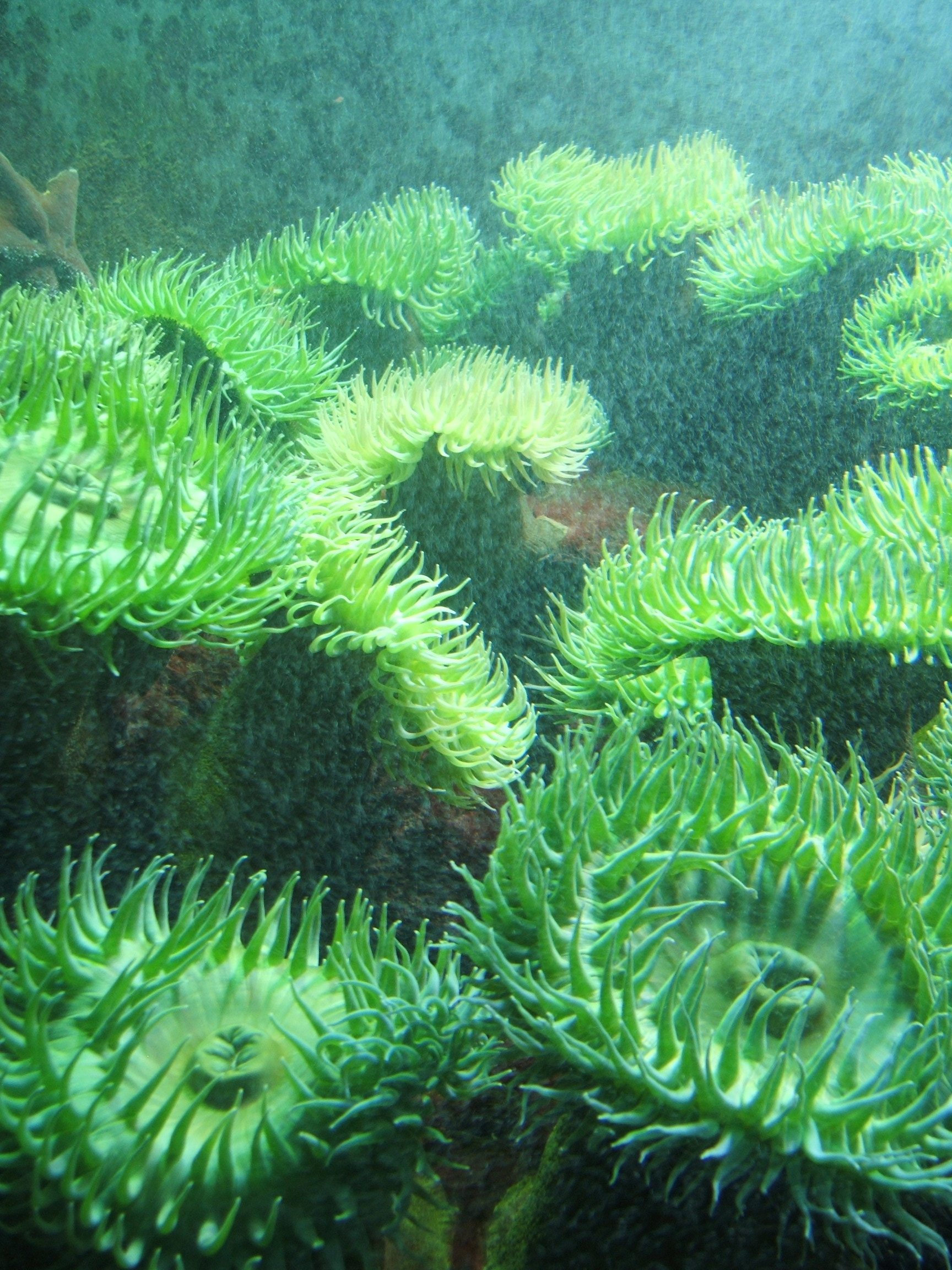 Giant green anemone (Anthopleura xanthogrammica). Taken at the New England Aquarium (Boston, MA, December 2006. Copyright © 2006 Steven G. Johnson and donated to Wikipedia under GFDL and CC-by-SA.